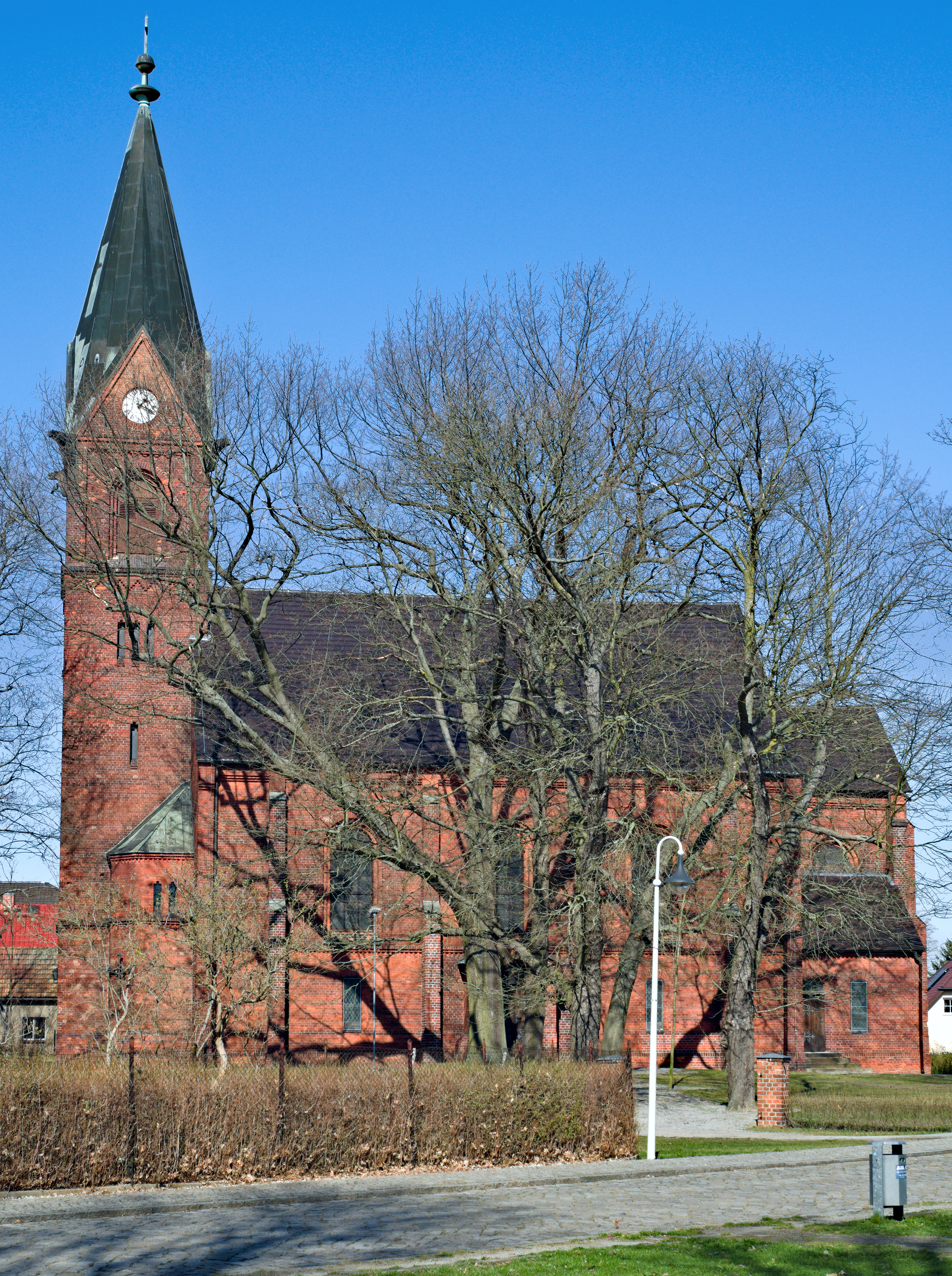 Village church of Cottbus-Groß Gaglow at Dorfstraße.